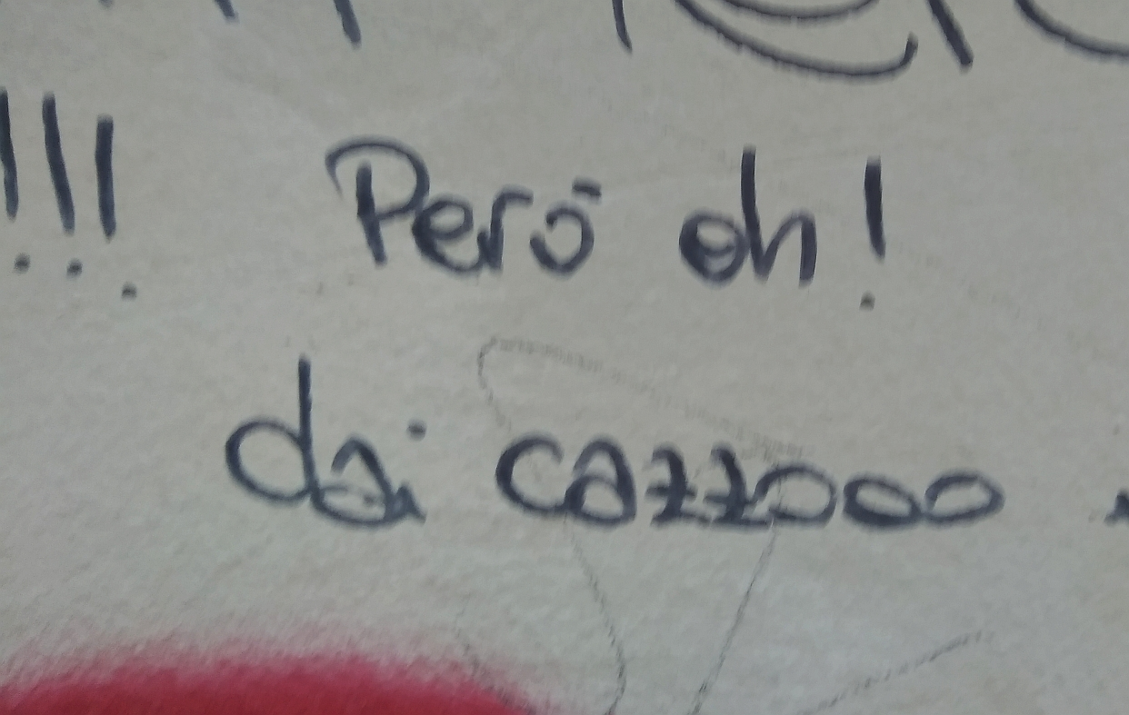 !!! Però oh! dai cazzooo (graffiti in Turin (Italy) near a high school)